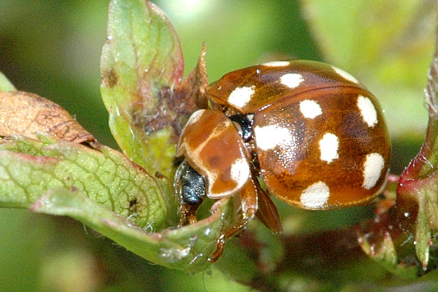 Picture taken in Commanster, Belgian High Ardennes . Species: Calvia 14-guttata